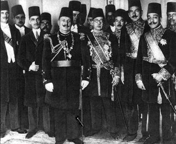 King Fouad with his cabinet ministers in 1927.